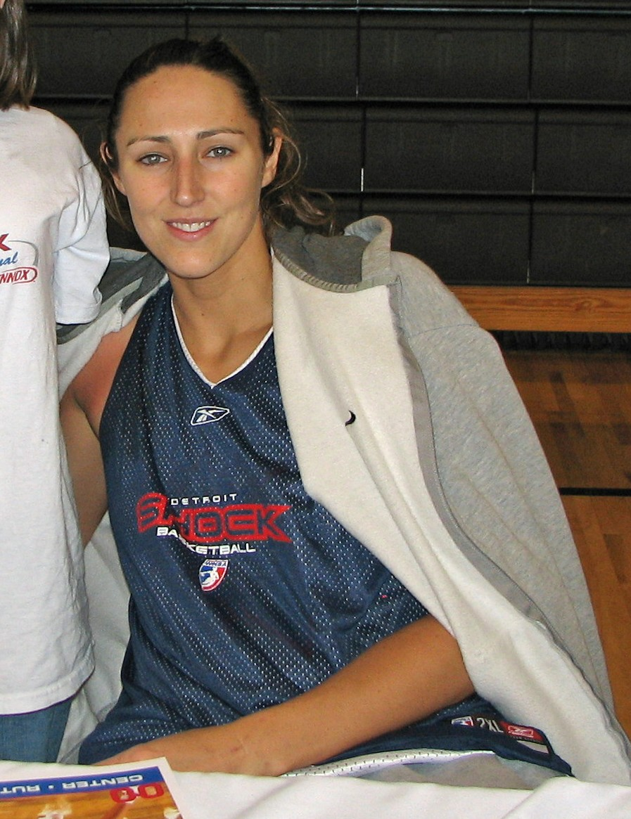 Ruth Riley of the WNBA's Detroit Shock